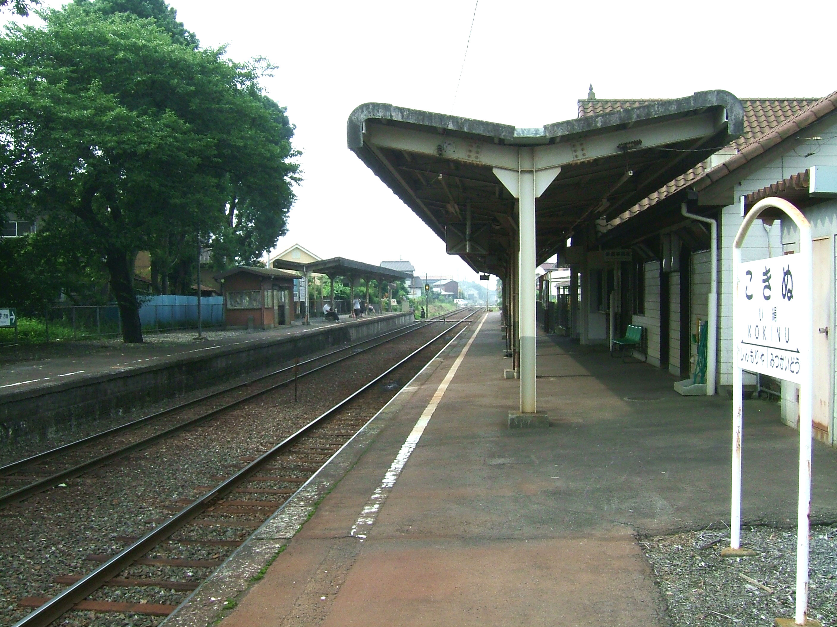 Kokinu Station platform (Kanto Railway Jōsō Line)